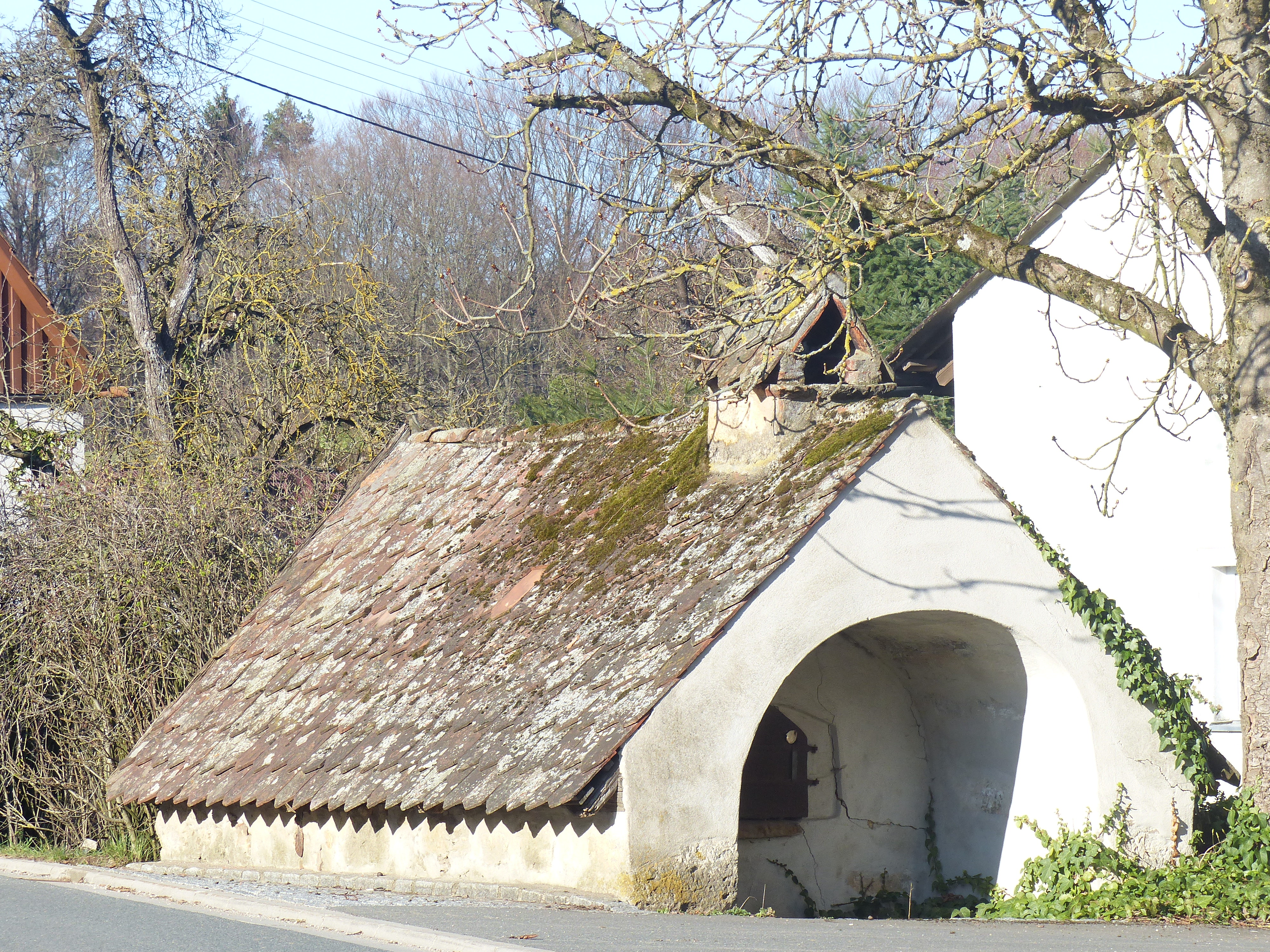 A baking oven in the village Möchs, a district of the municipality Hiltpoltstein